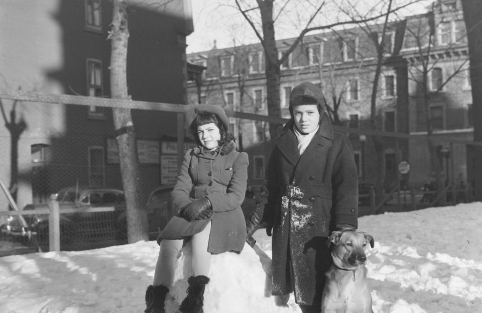 Montreal pianist and composer André Mathieu is nicknamed the Canadian Mozart. We see him, at eleven years old, with his sister Camille and his dog "Bibi".